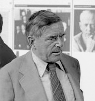 Title: Golo Mann 1978 People in the image: Golo Mann Factual corrections and alternative descriptions are encouraged separately from the original description. Additionally errors can be reported at this page to inform the Bundesarchiv. Original historic description: Golo Mann 1978, Wissenschaftliche Tagung der Stiftung "Konrad-Adenauer-Haus" im Konrad-Adenauer-Haus, Rhöndorf